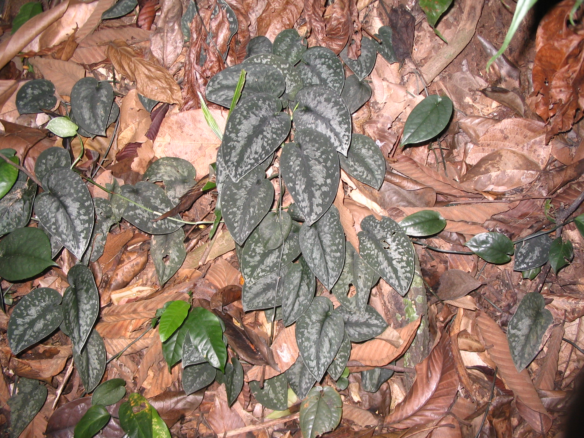 Scindapsus pictus - Bukit Nanas Forest Reserve - Kuala Lumpur - Malaysia